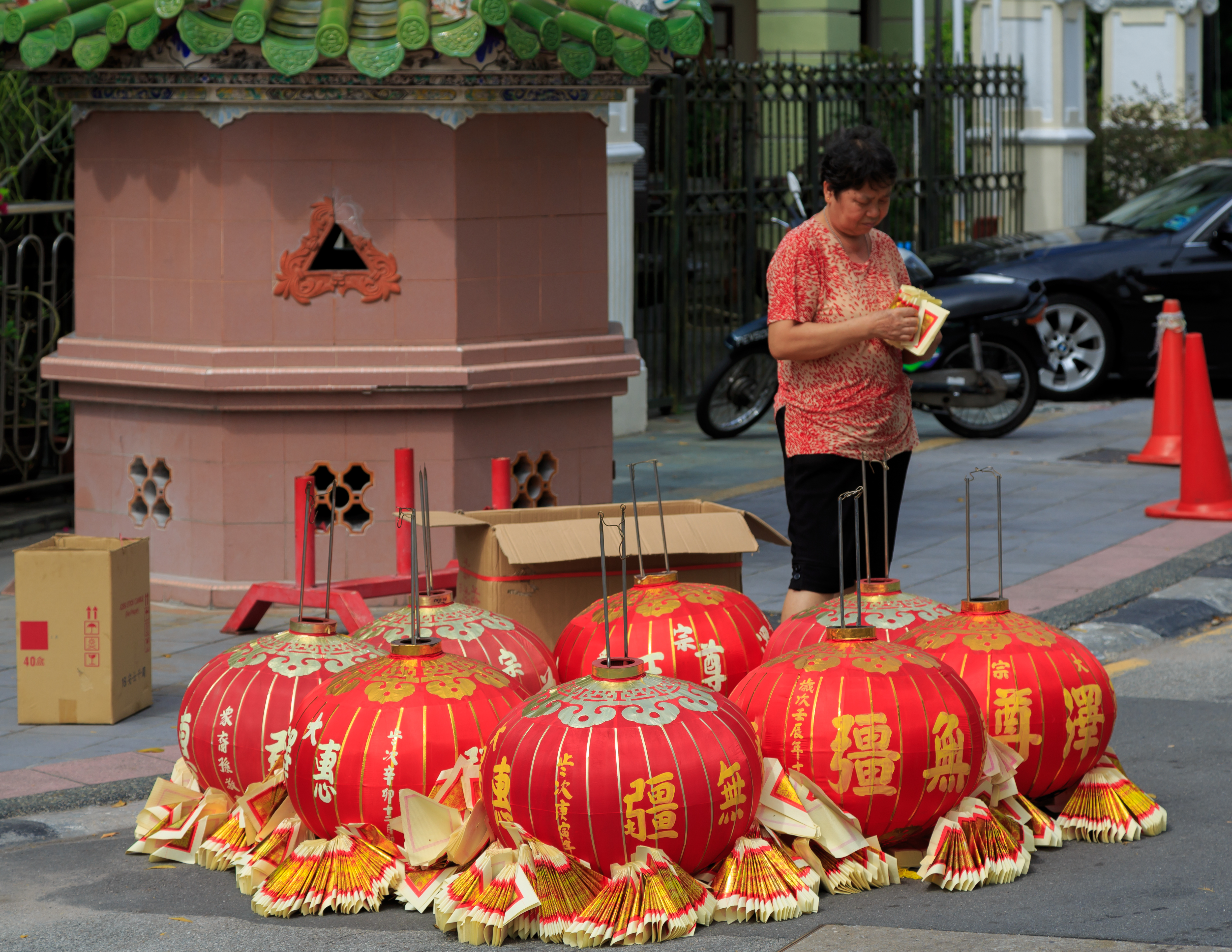 Penang, Malaysia: A chinese bussiness woman checking her delivery of chinese lanterns in Georgetown